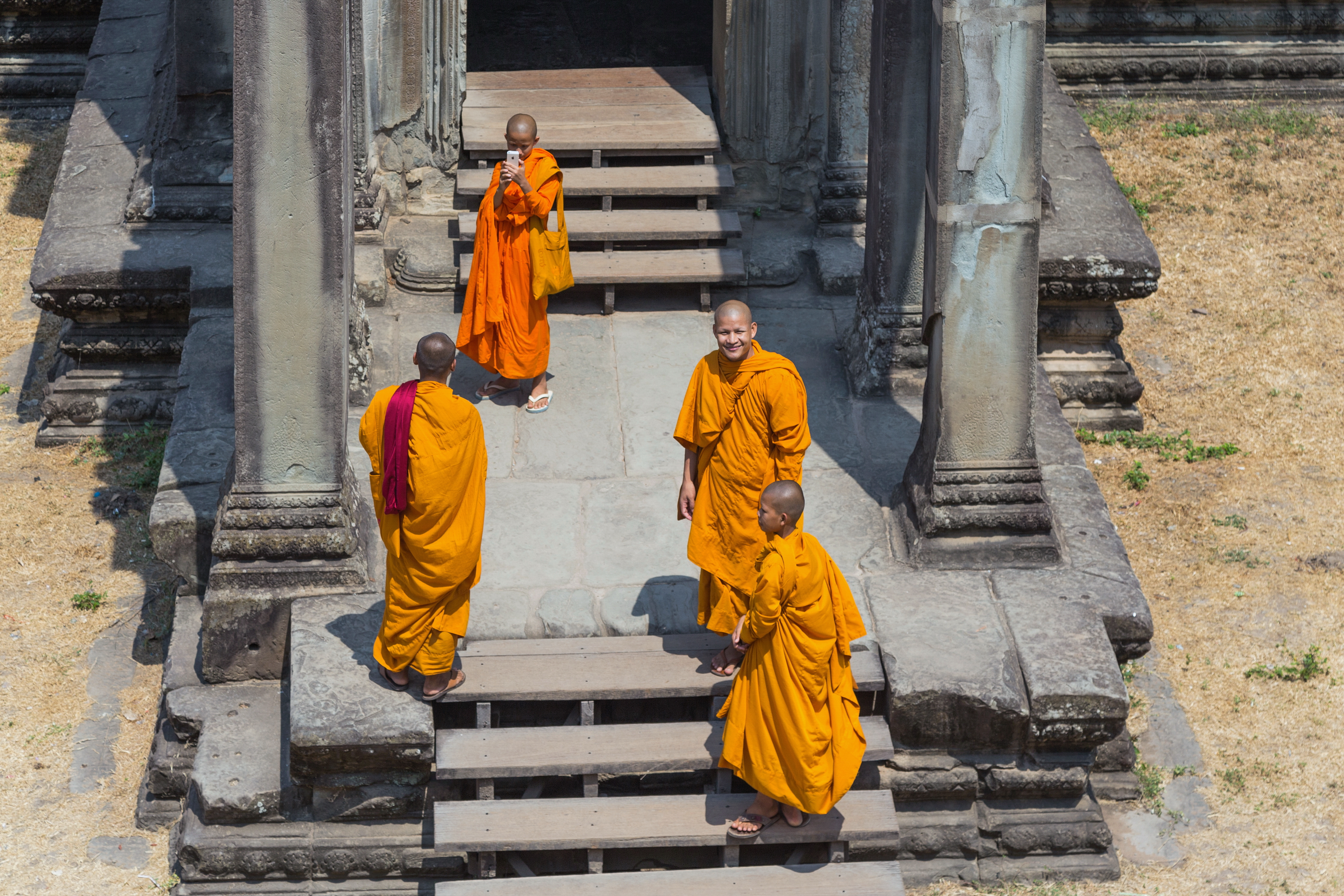 Buddhist monks. Main temple of Angkor Wat. Siem Reap Province, Cambodia.